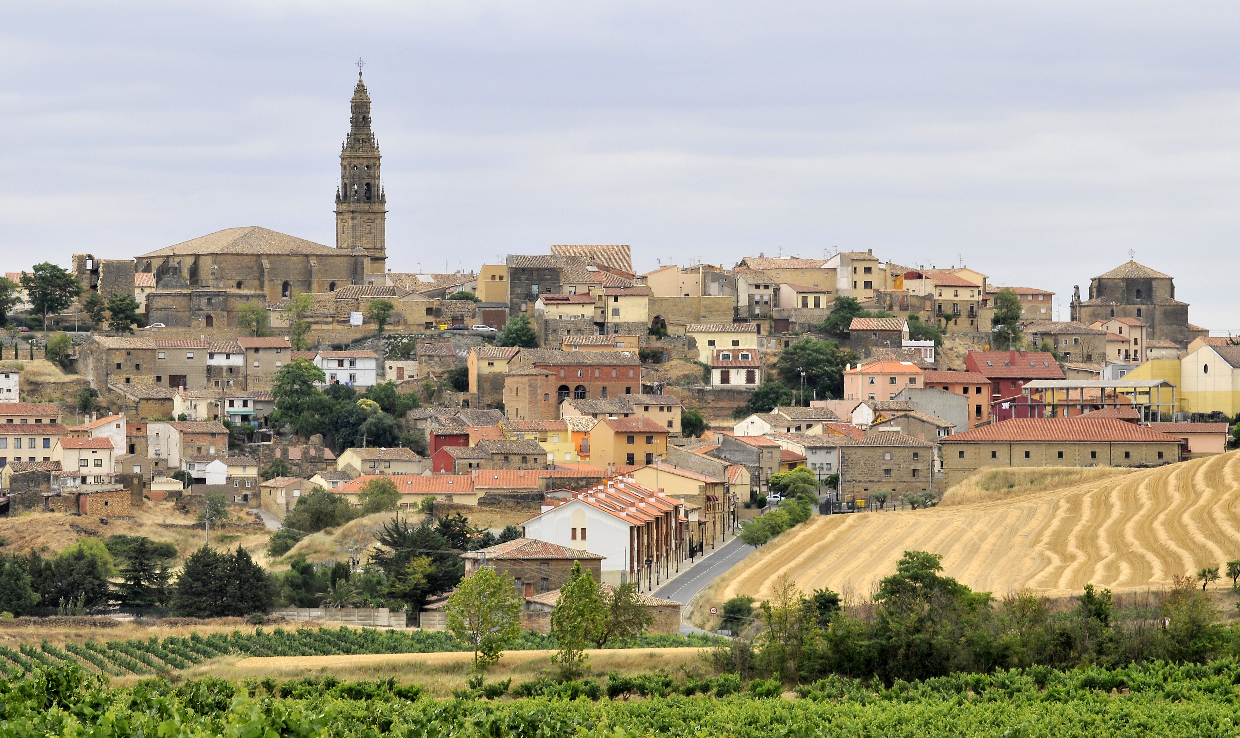 The village and its surroundings. Briones, La Rioja, Spain